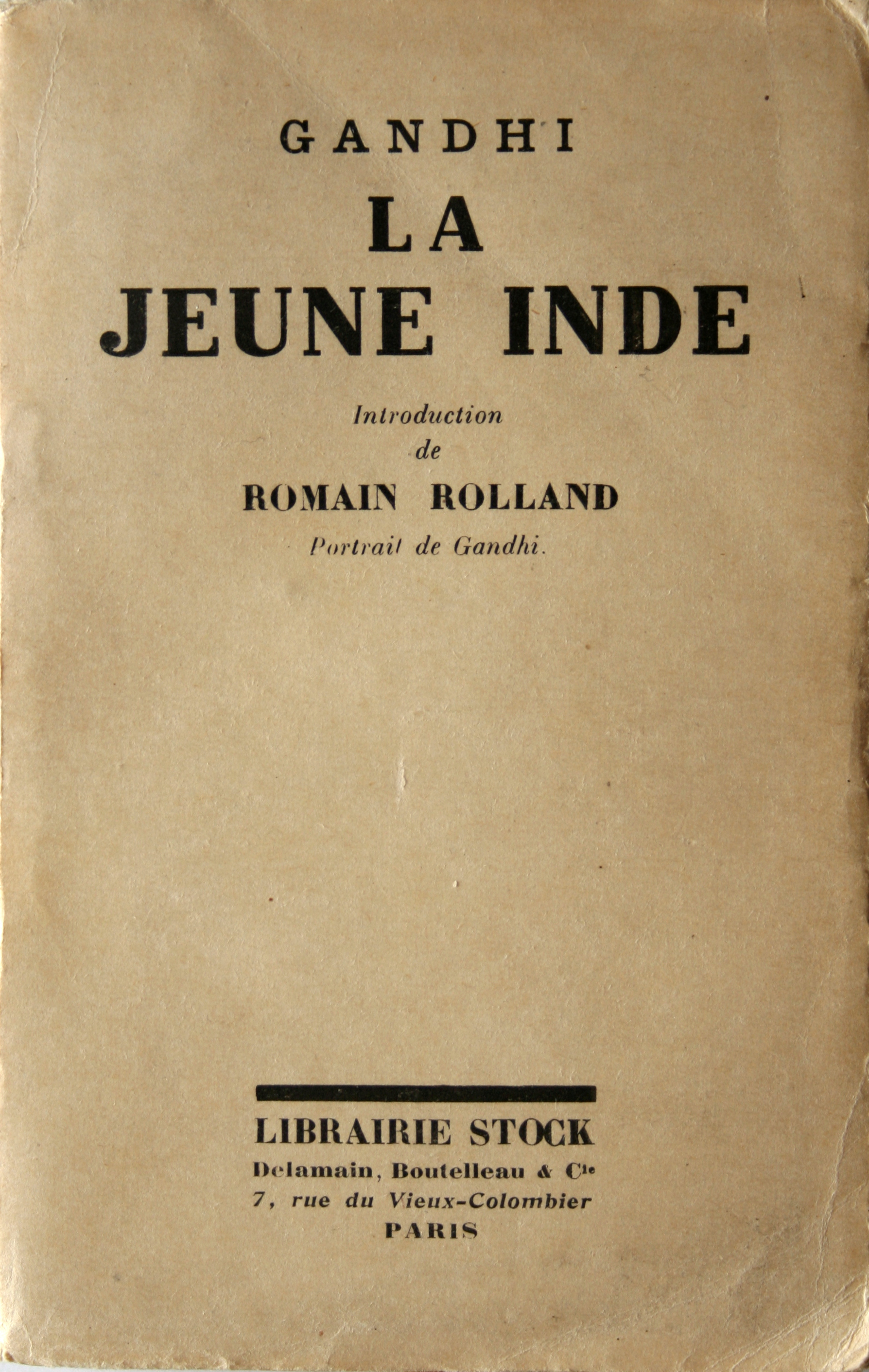 Mohandas K. Gandhi, La Jeune Inde, book cover. Translation from Young India by Hélène Hart. Introduction by Romain Rolland. Published by Stock, Paris.